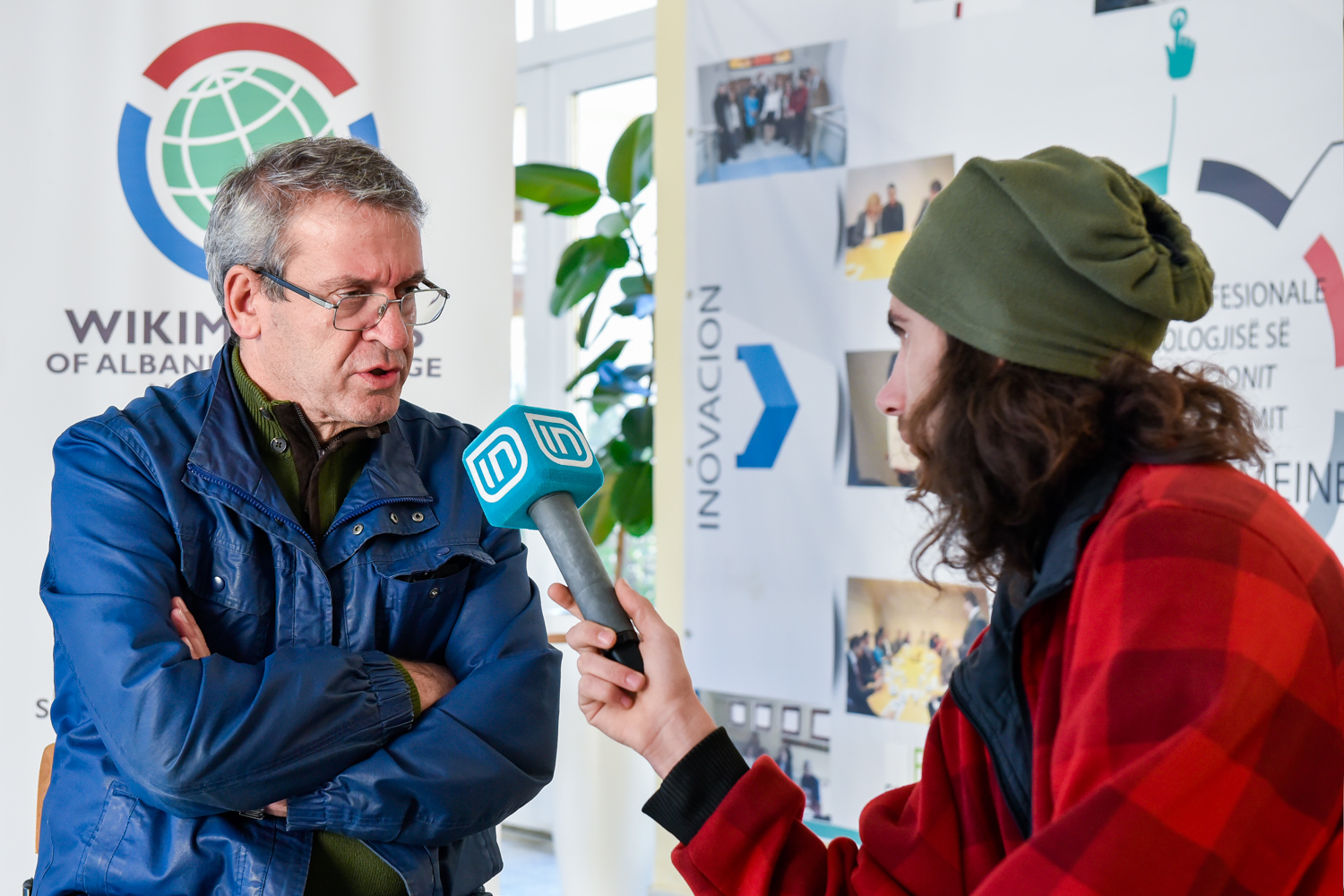 Prof. Ismet Azizi getting interviewed from IN TV during the first day of #WikiWeekend16 in Tirana.